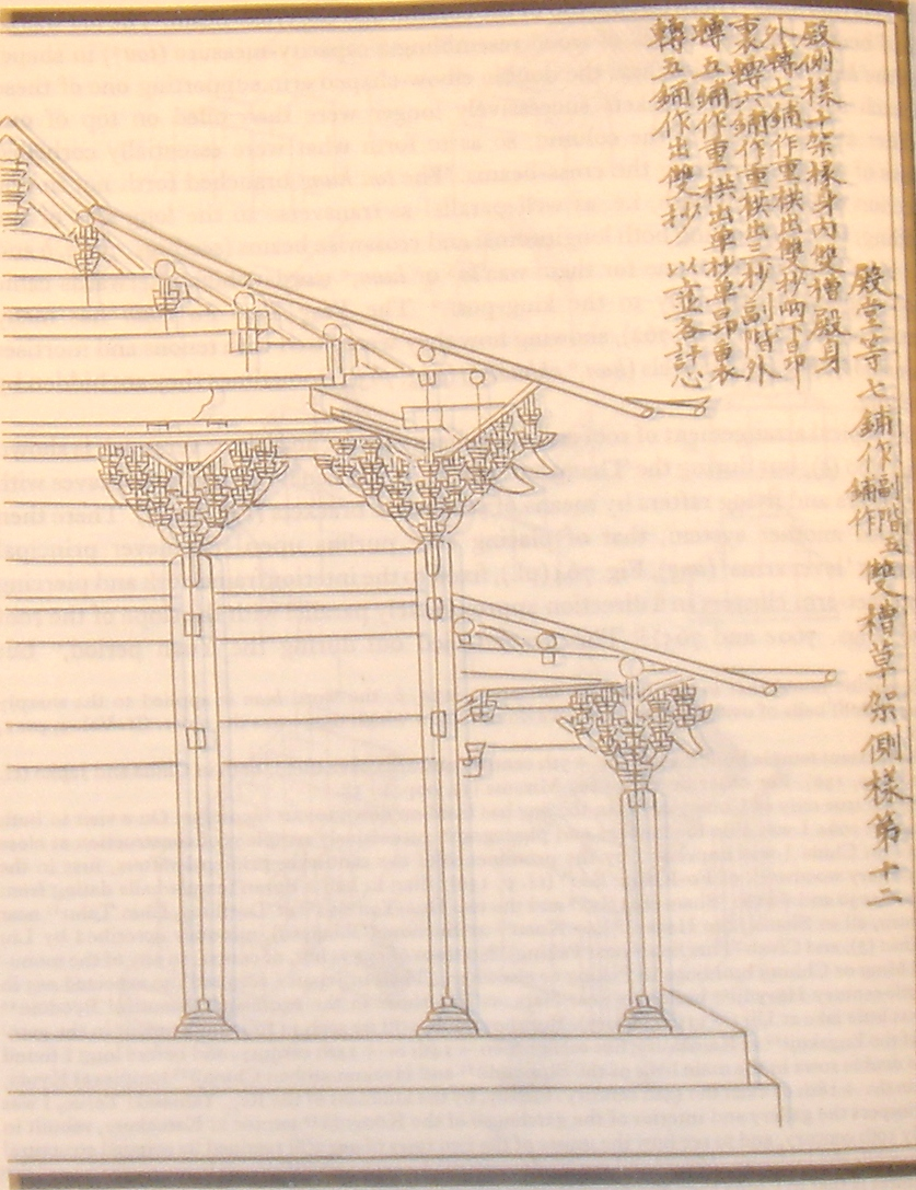 A diagram of three corbel bracket assemblies in an illustration of a cross-section of a Chinese hall. This is an original picture from the Yingzao Fashi standard building manual published by the Chinese official and architect Li Jie in the year 1103, during the Song Dynasty. The curving profile of purlines and the consequent curve of the roof line is well seen. Lever arms are also present. This picture appears on page 96 of Joseph Needham's book Science and Civilization in China: Volume 4, Part 3, Civil Engineering and Nautics.